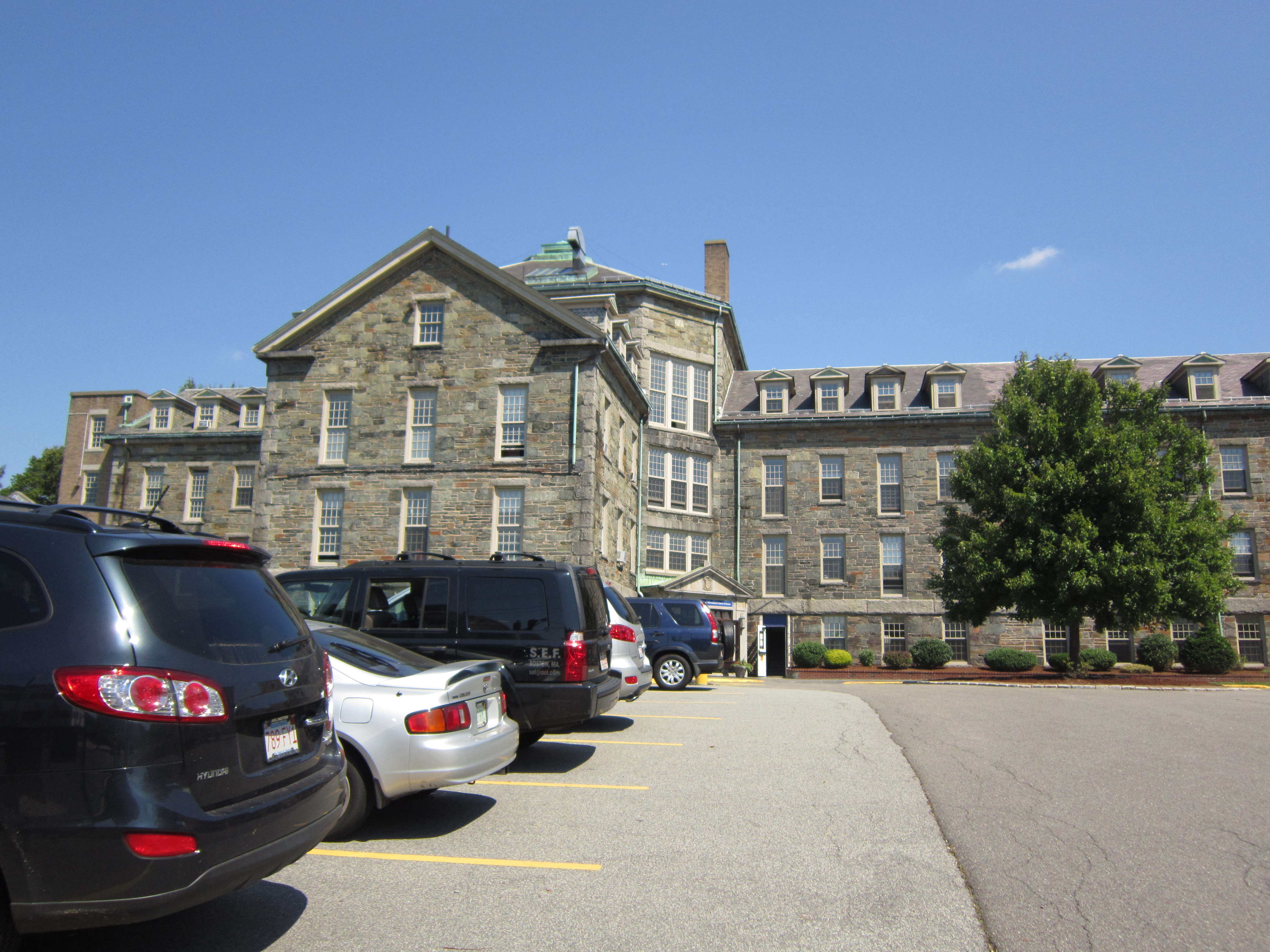 International School of Boston, Matignon Road, Cambridge, Massachusetts. This building formerly served as an almshouse, and is listed as such on the National Register of Historic Places.